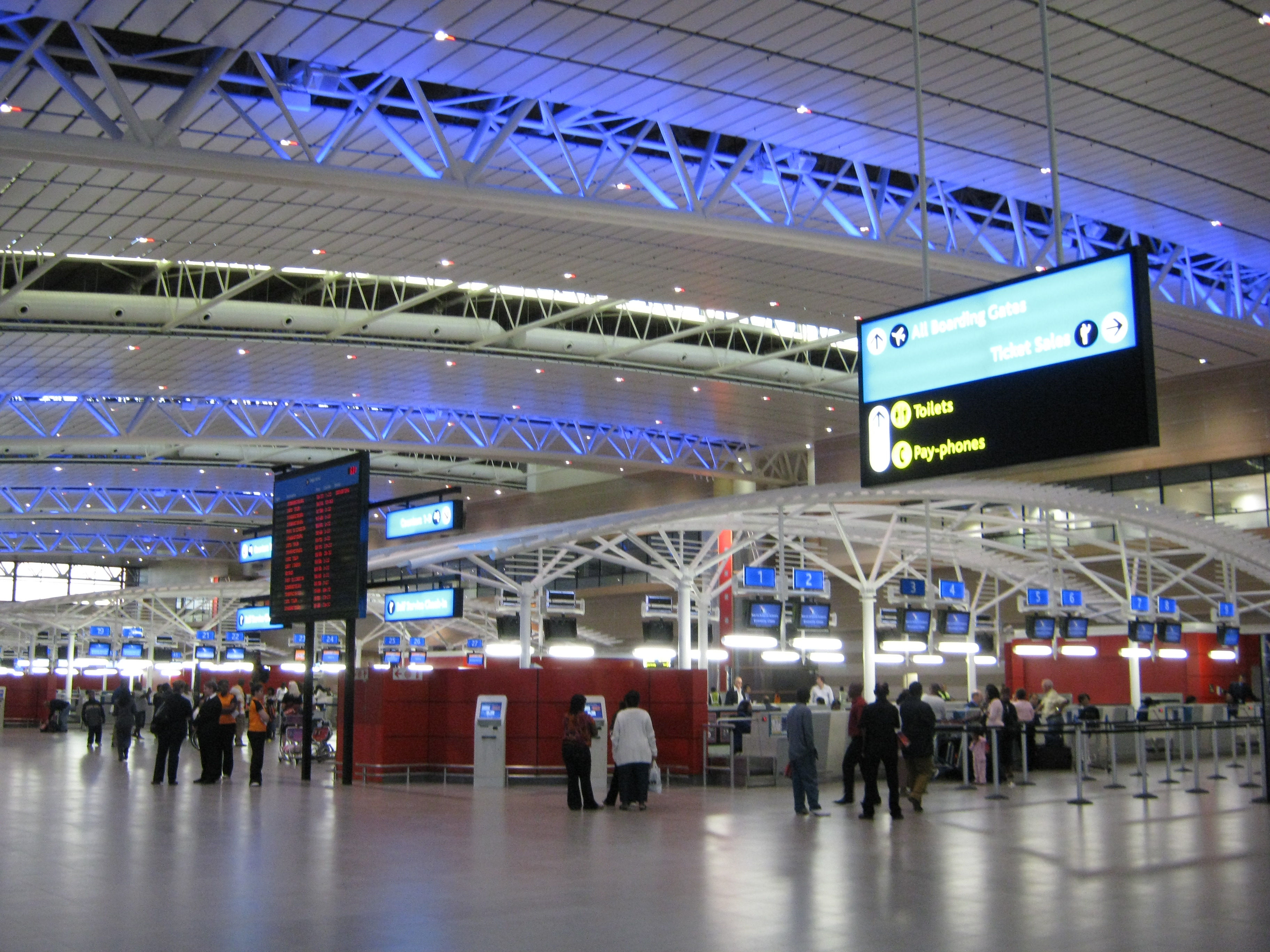 The departures concourse at King Shaka International Airport